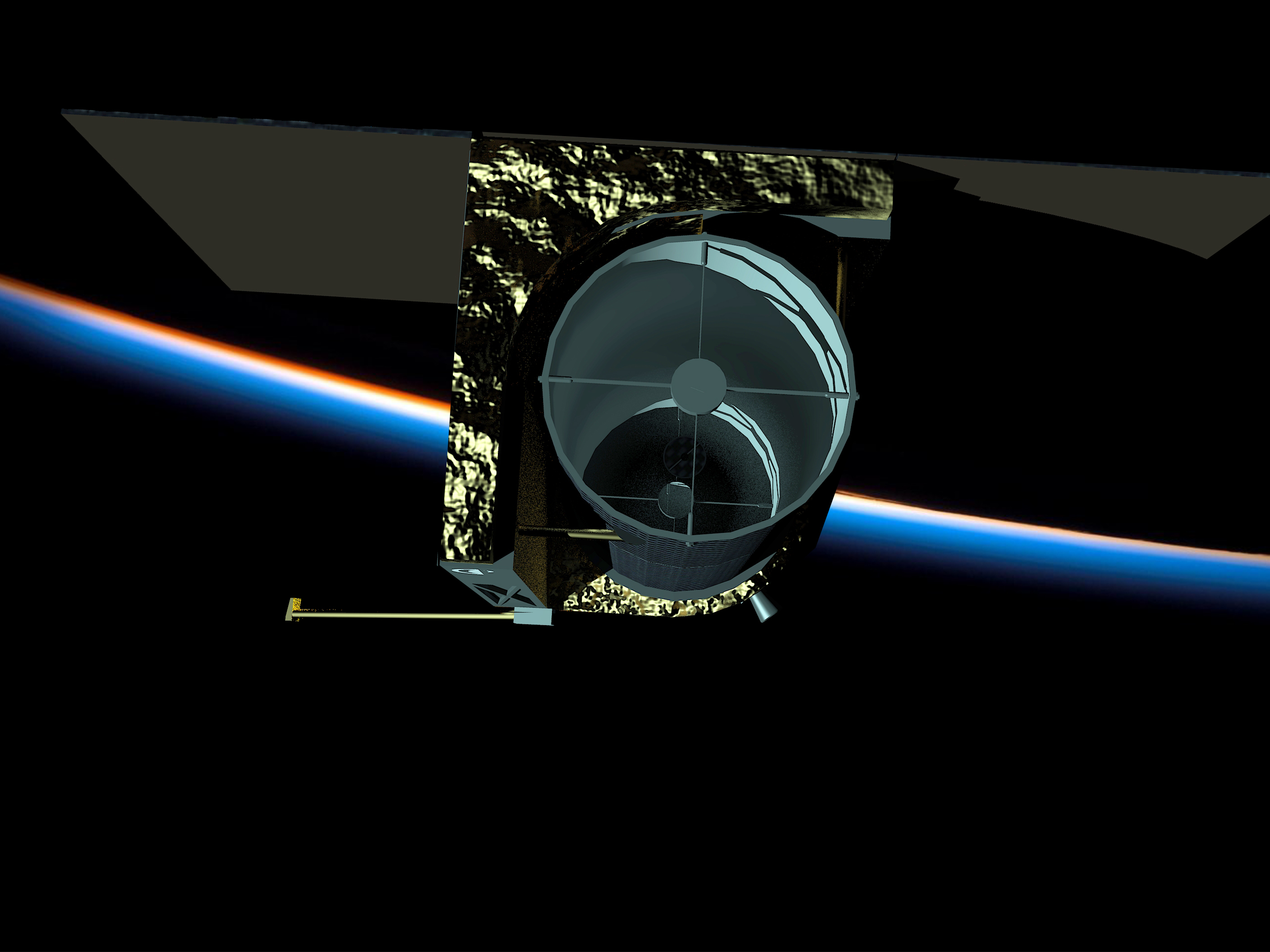 A view of an Arkyd-100 in low Earth orbit. 3D model based on images of Arkyd full scale mock-up.